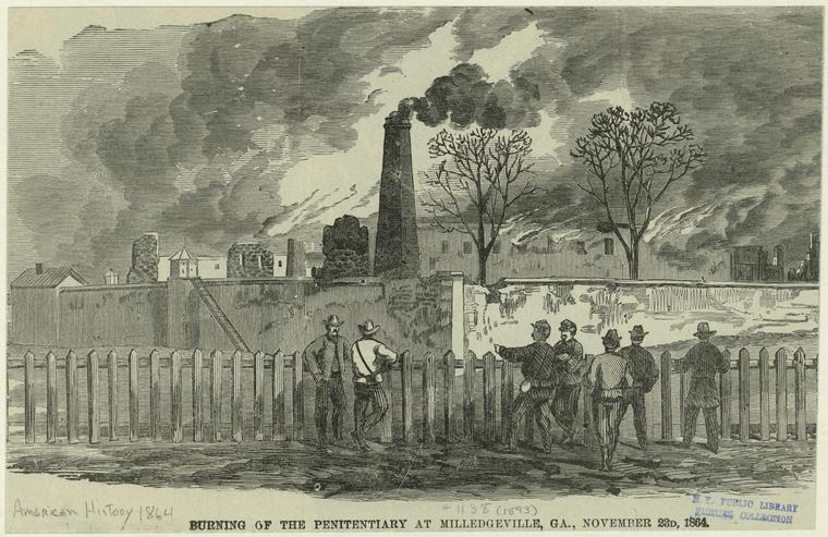 Burning of the penitentiary at Milledgeville, Ga., November 23d, 1864.